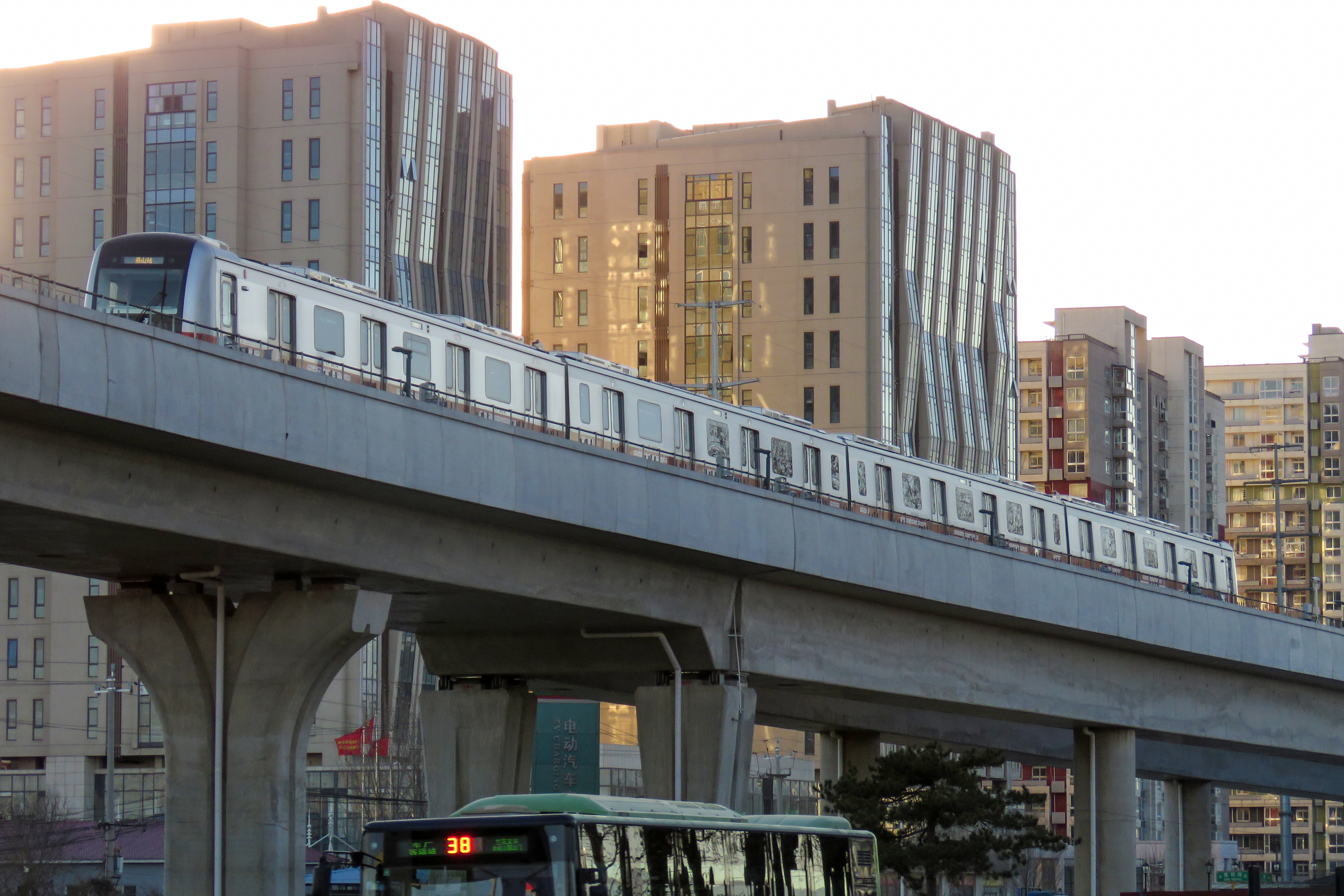 First shot of YF Line train.